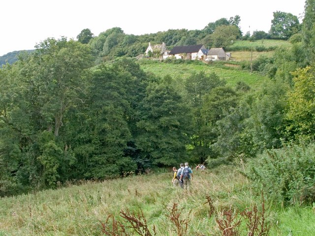 Snow's Farm Walkers descending the path to cross the Dillay Brook towards Snow's Farm.